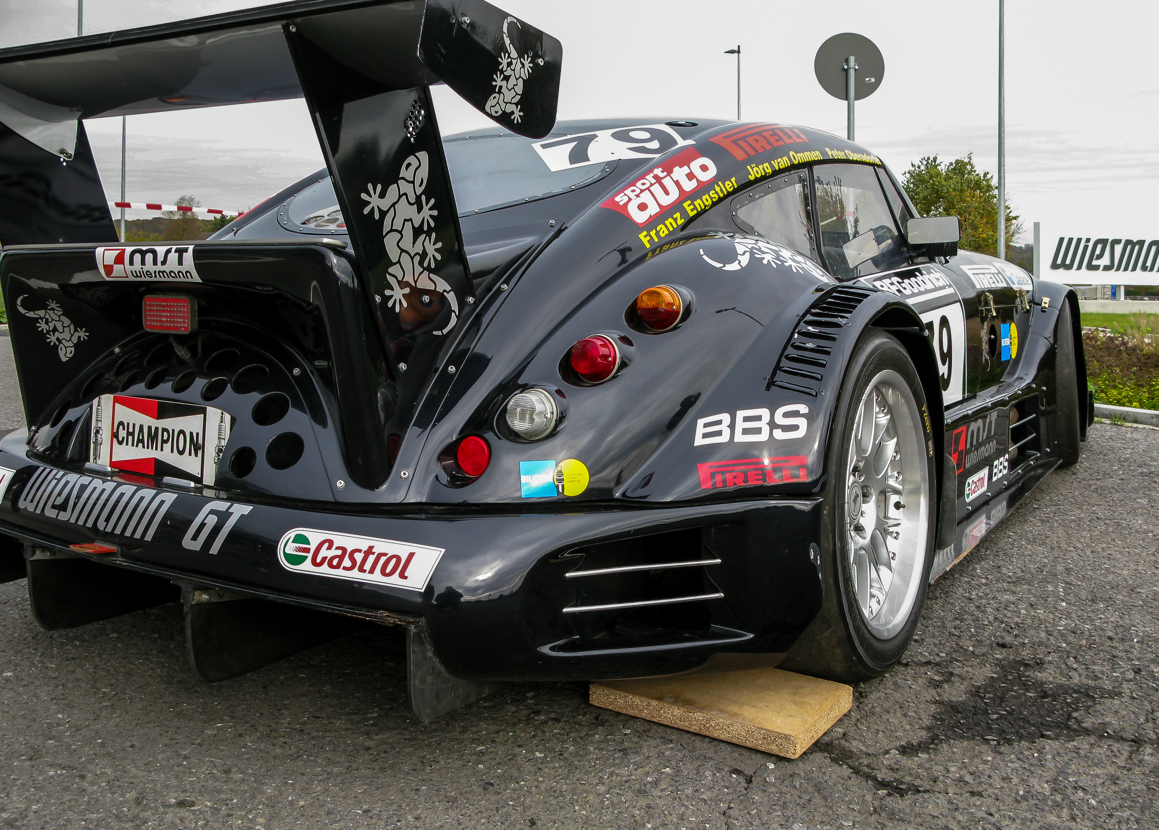 Wiesmann GT at the Sportwagenmanufaktur Wiesmann, Dülmen, North Rhine-Westphalia, Germany